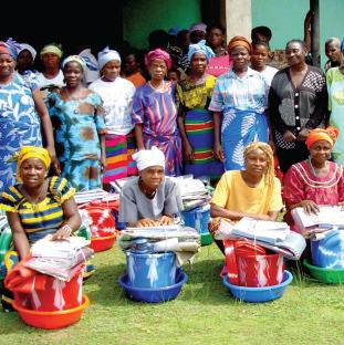 Traditional midwives receive clean delivery kits as they graduate from USAID training in Liberia. USAID has improved conditions for expectant mothers and infants in Liberia, by working with traditional midwives - the front lines of childbirth in rural areas. Home birth is a tradition in Liberia - 63% of women deliver outside of a health facility. Recognizing the culture of home birth and knowledge among traditional midwives, USAID worked with the American College of Nurse-Midwives and Liberian Ministry of Health and Social Welfare to develop home-based life-saving skills training. The training utilizes traditional midwives’ respected roles in their communities and shifts the focus of their work to encouraging birth preparedness, recognizing and referring complications, and providing appropriate emergency care.